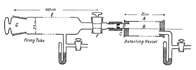 Apparatus for counting alpha particles